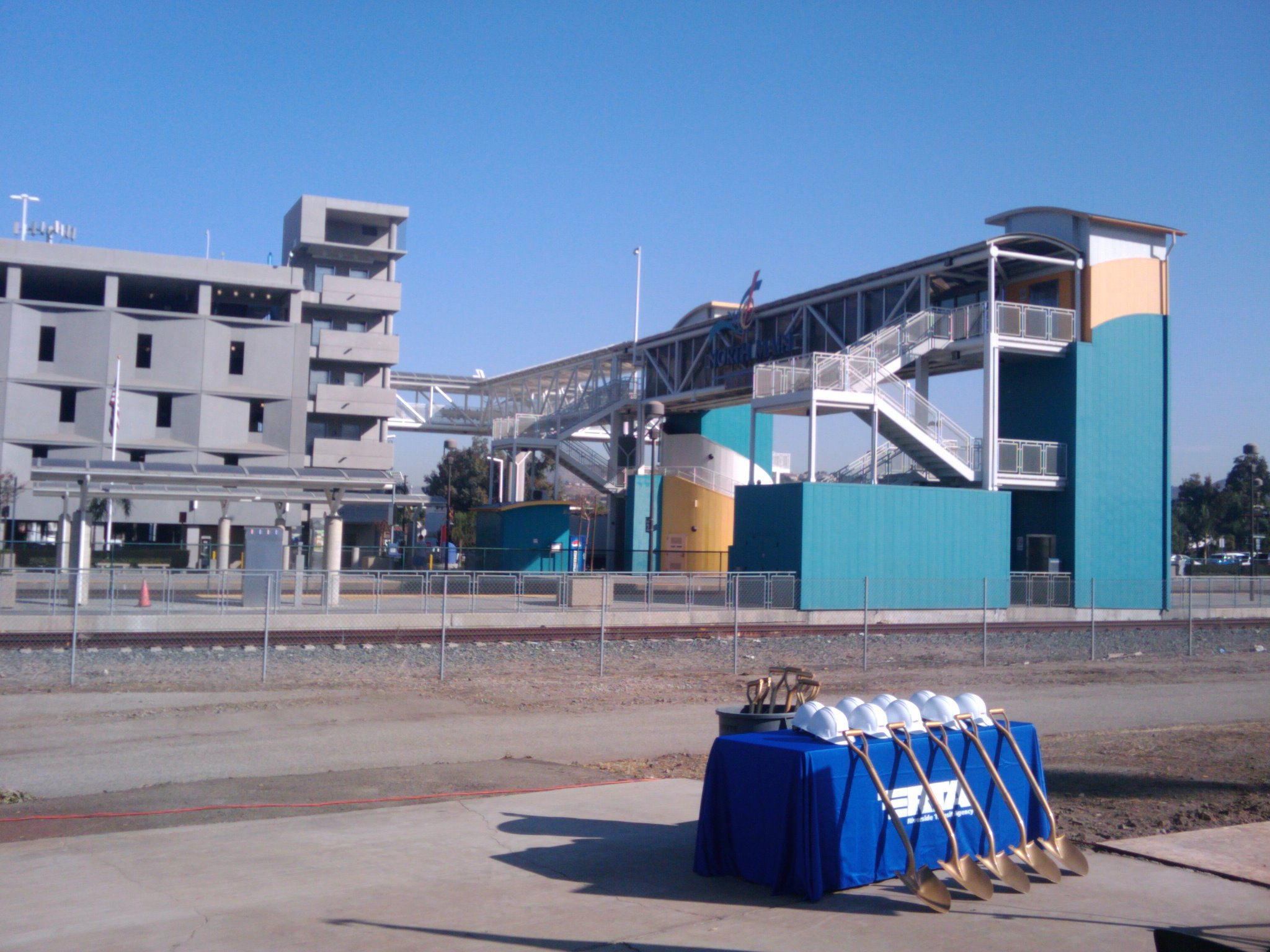 Shiny hard hats and golden shovels await dignitaries at the Corona Transit Center Groundbreaking